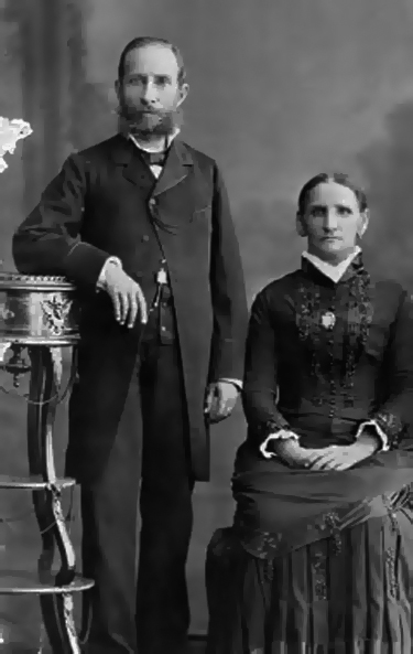 Antonio da Silva Paranhos and wife